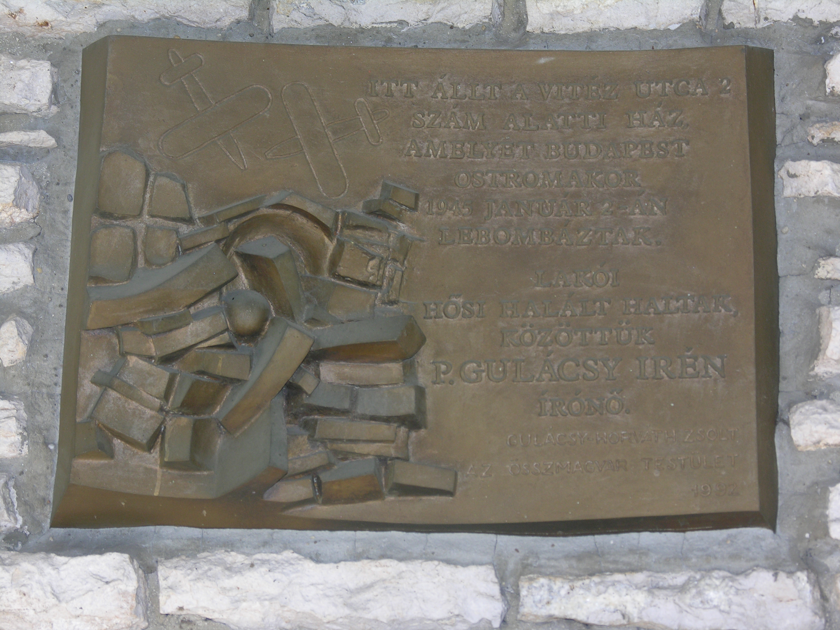 Commemorative plaque of Irén Gulácsy in Budapest District II, Bem Quay No 37 (In 1945: Vitéz Street No 2)